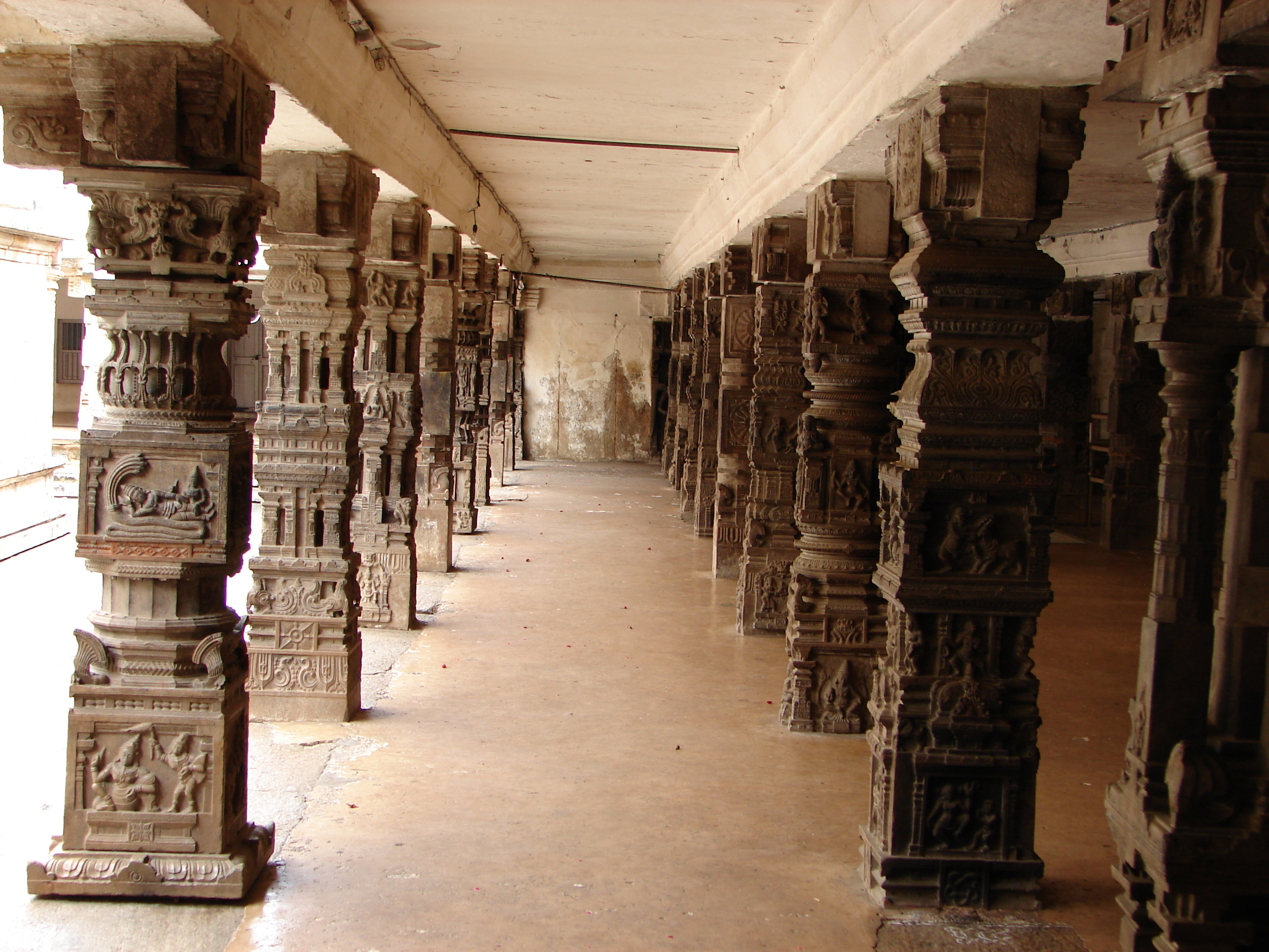 Photograph taken by me (Dineshkannambadi) in Cheluvarayaswami temple , Mandya district, Karnataka state, India in June 2006